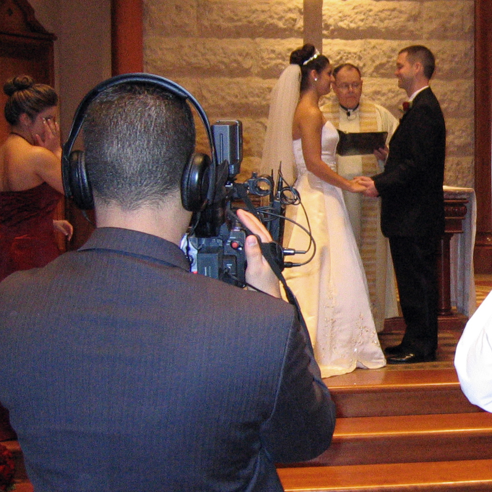 A wedding videographer recording the bride and groom exchange vows in church.